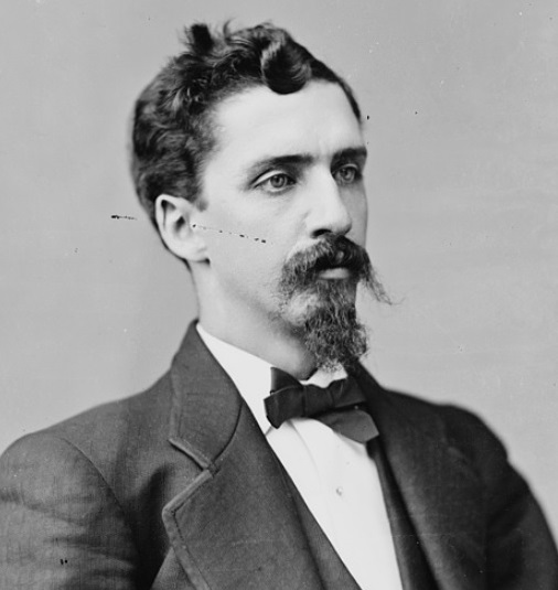 William Randolph Steele (Wyoming Congressman)